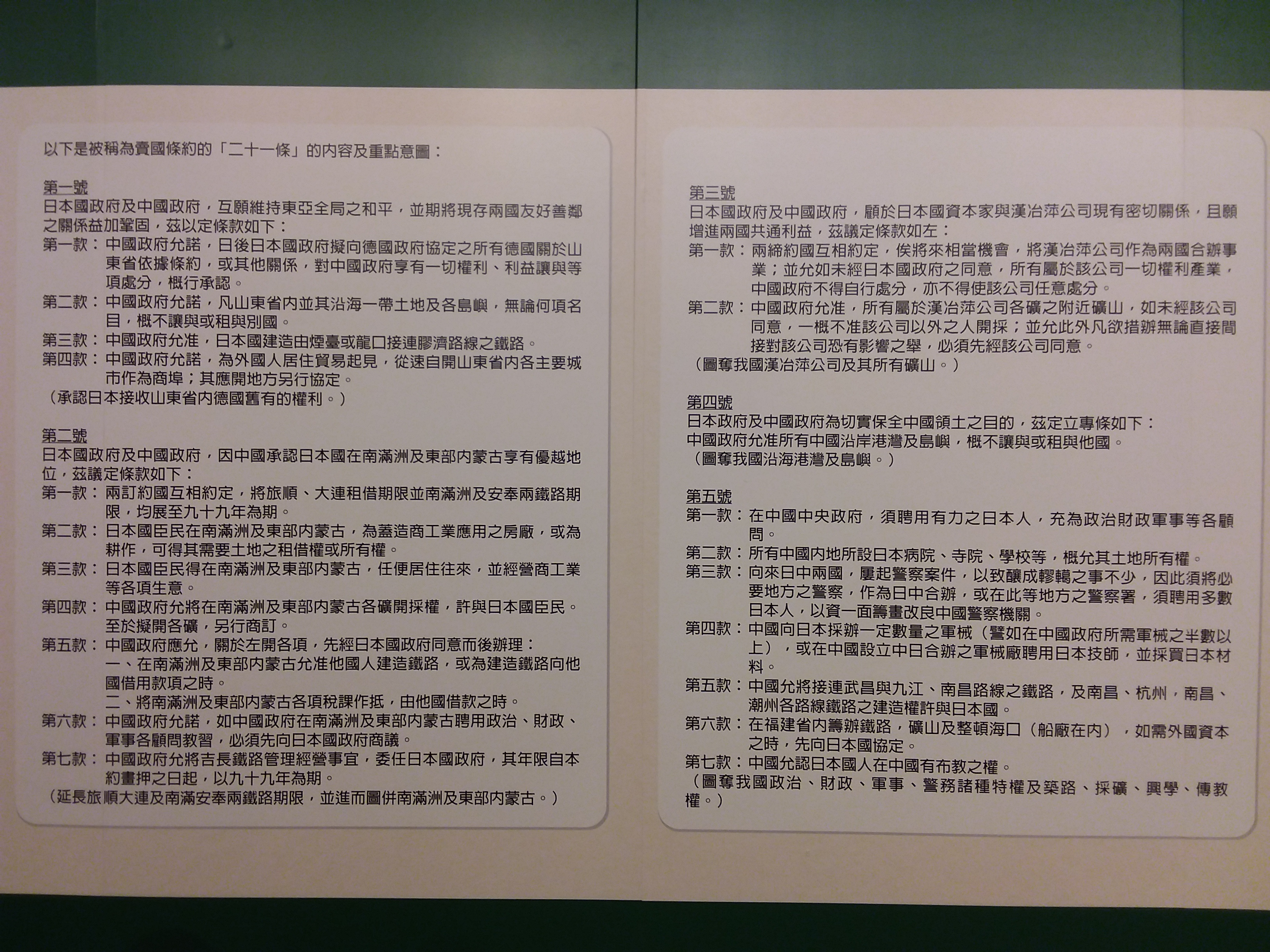 HKCL 香港中央圖書館 CWB 舊圖片展覽 old photos exhibition black & white 中華民國 ROChina 五四運動 1919-05-04 May Fourth Movement the 100th year in April 2019